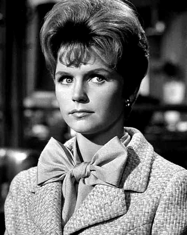 Publicity photo of Lee Remick